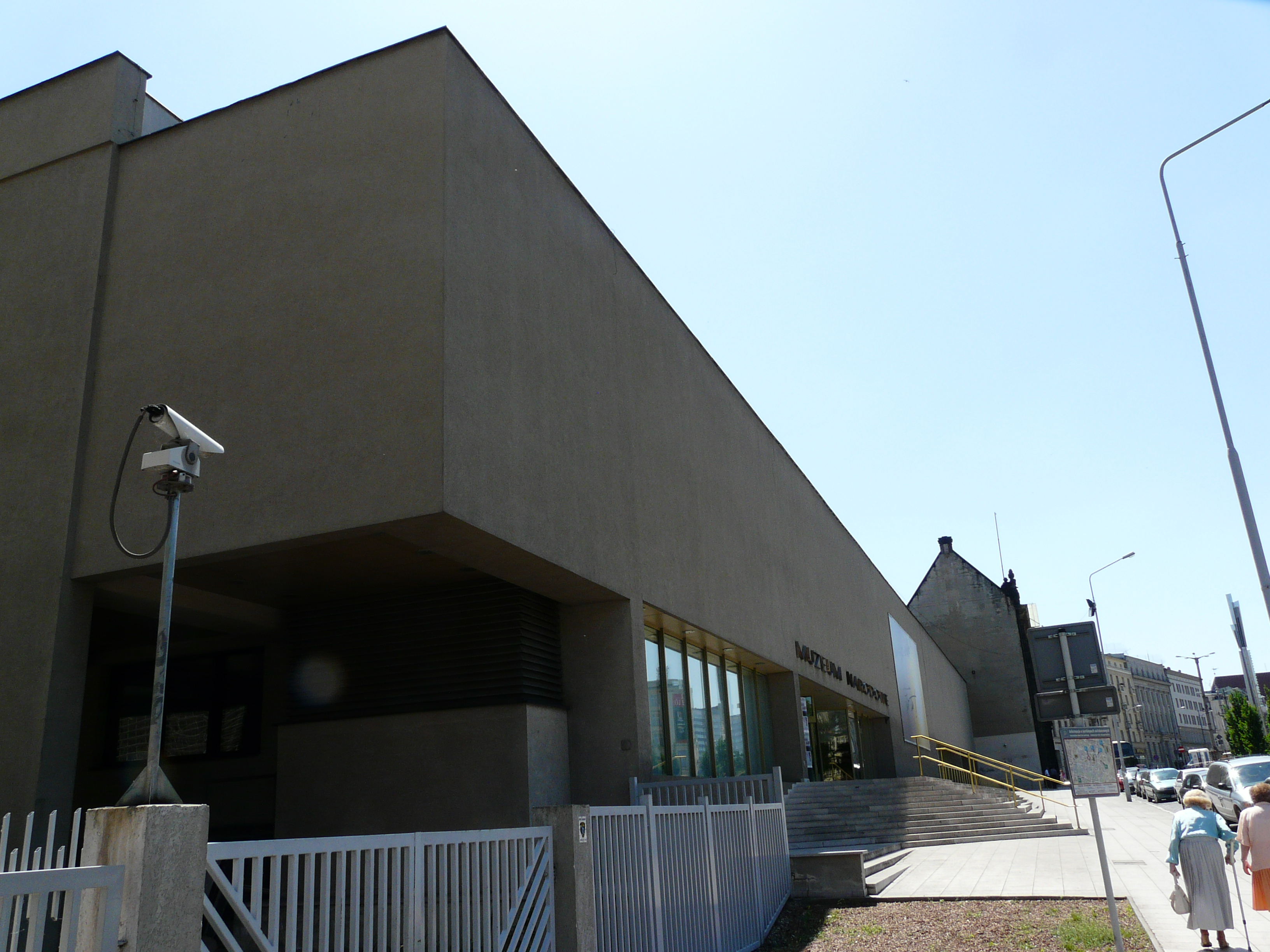 New wing of the Gallery of Painting and Sculpture in Poznań (accomplished in 2001), seat and main building of the National Museum.